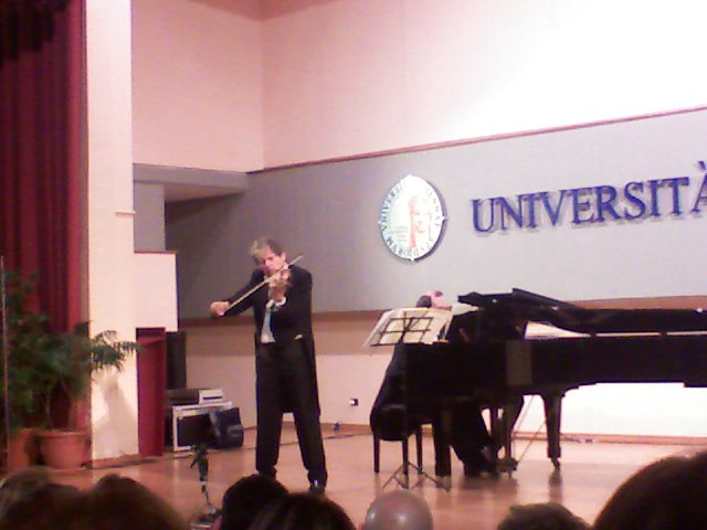 Uto Ughi's concert at Enna University